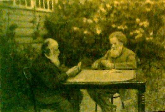 V.Korolenko and M. Annensky at the cottage of Korolenko in Hatky